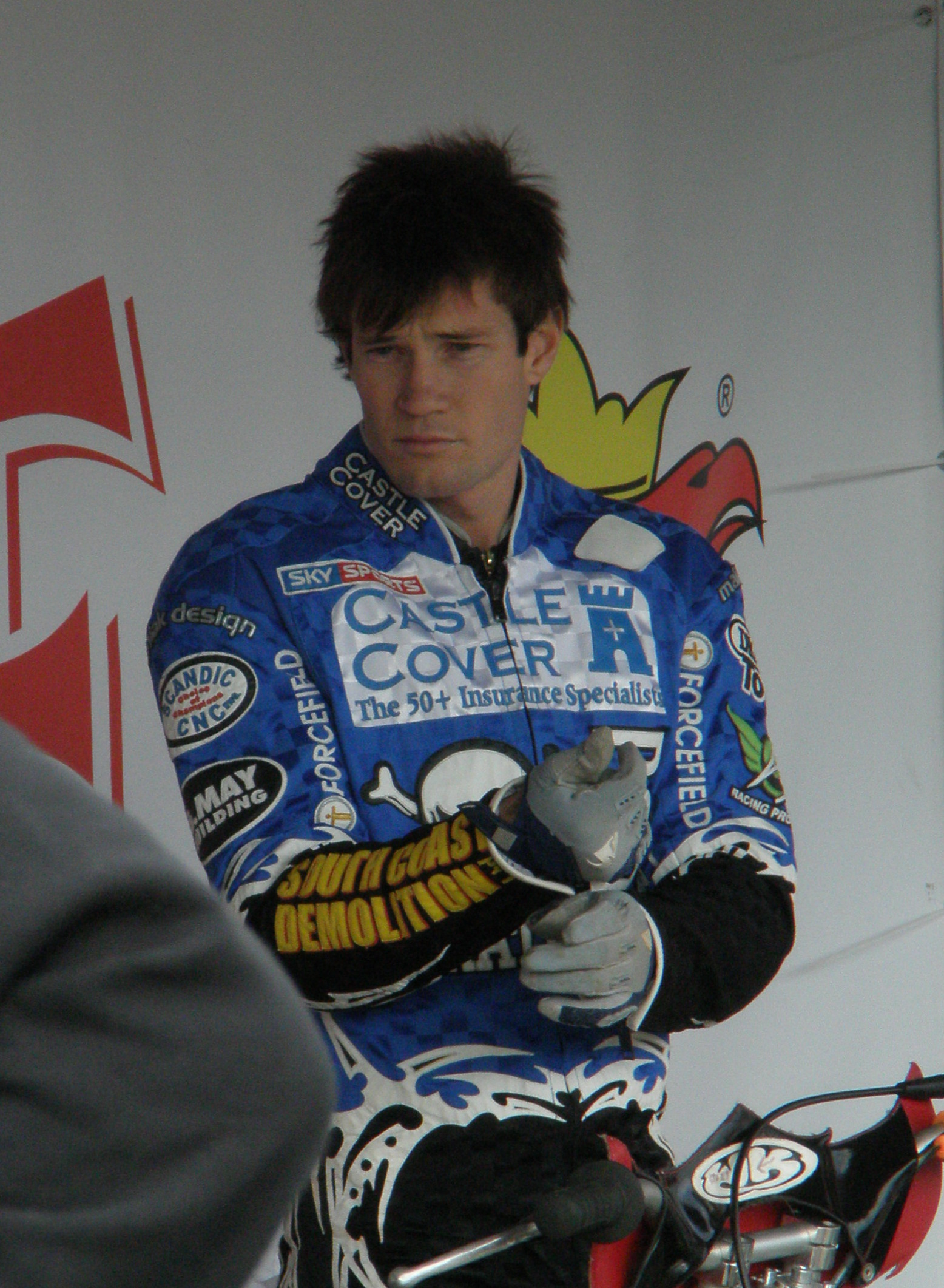 Jason Doyle